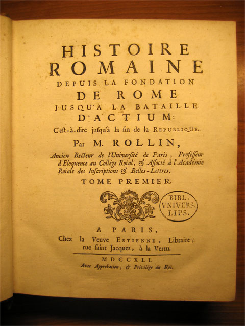 First volume of Charles Rollin's "Histoire Romaine" (1741)